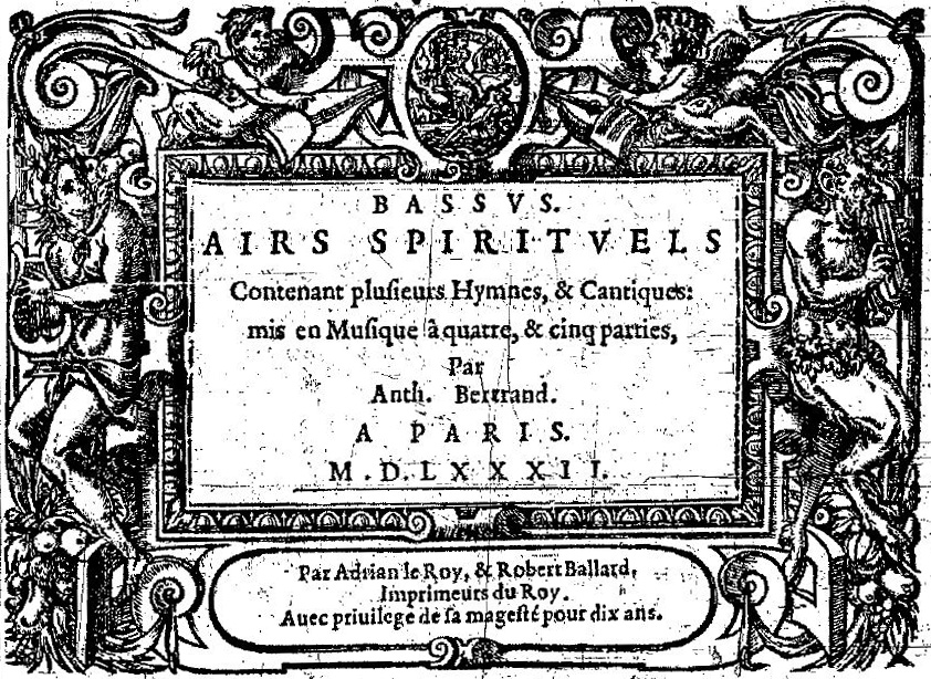 Title page of Antoine de Bertrand's Airs spirituels (Paris, 1582)